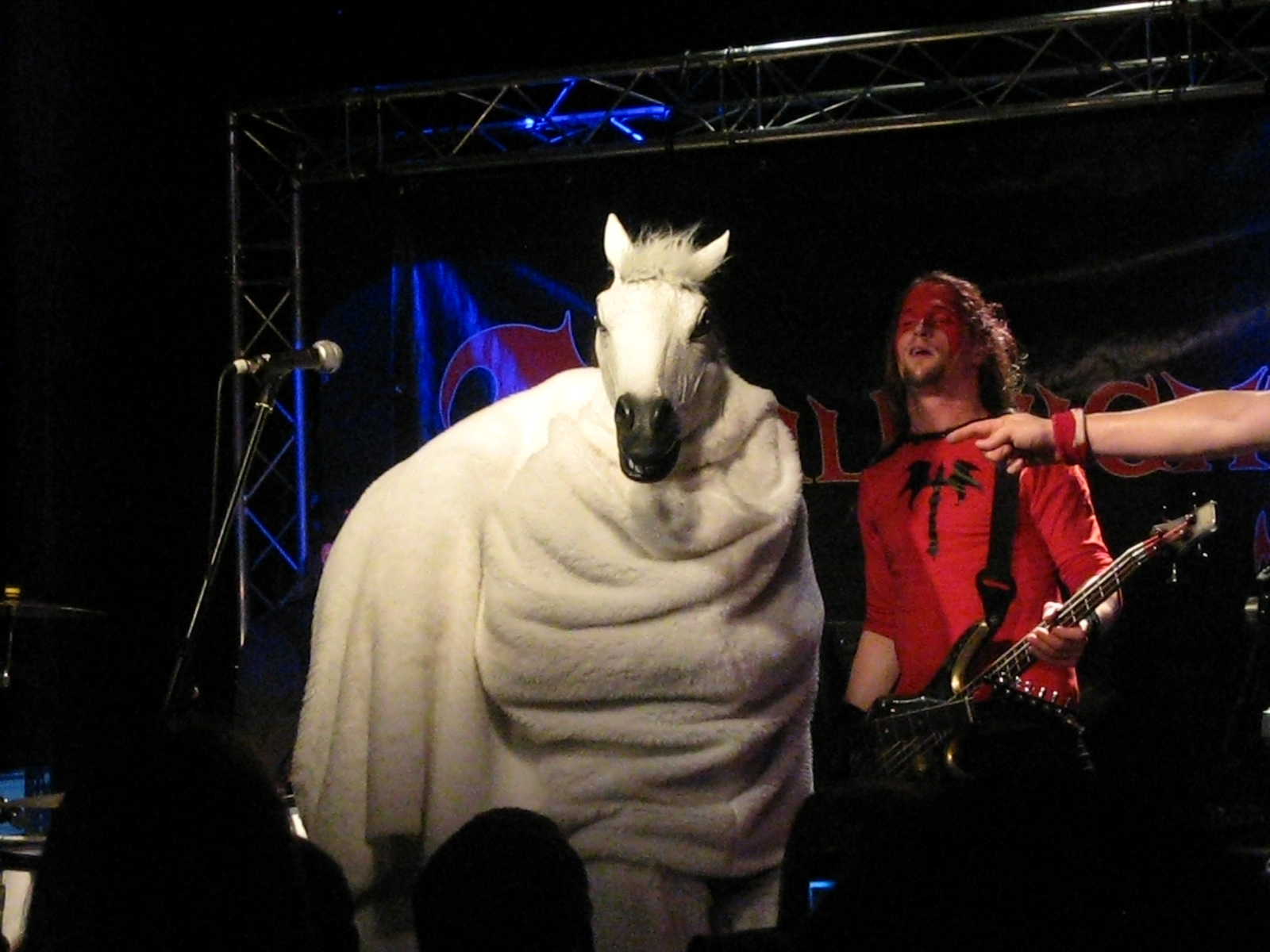 Grailknights horse